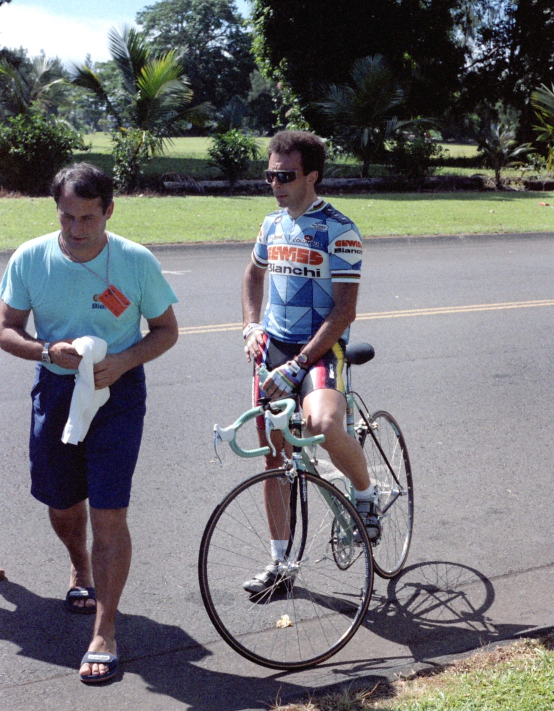 1987 Coors Classic Hilo, Hawaii